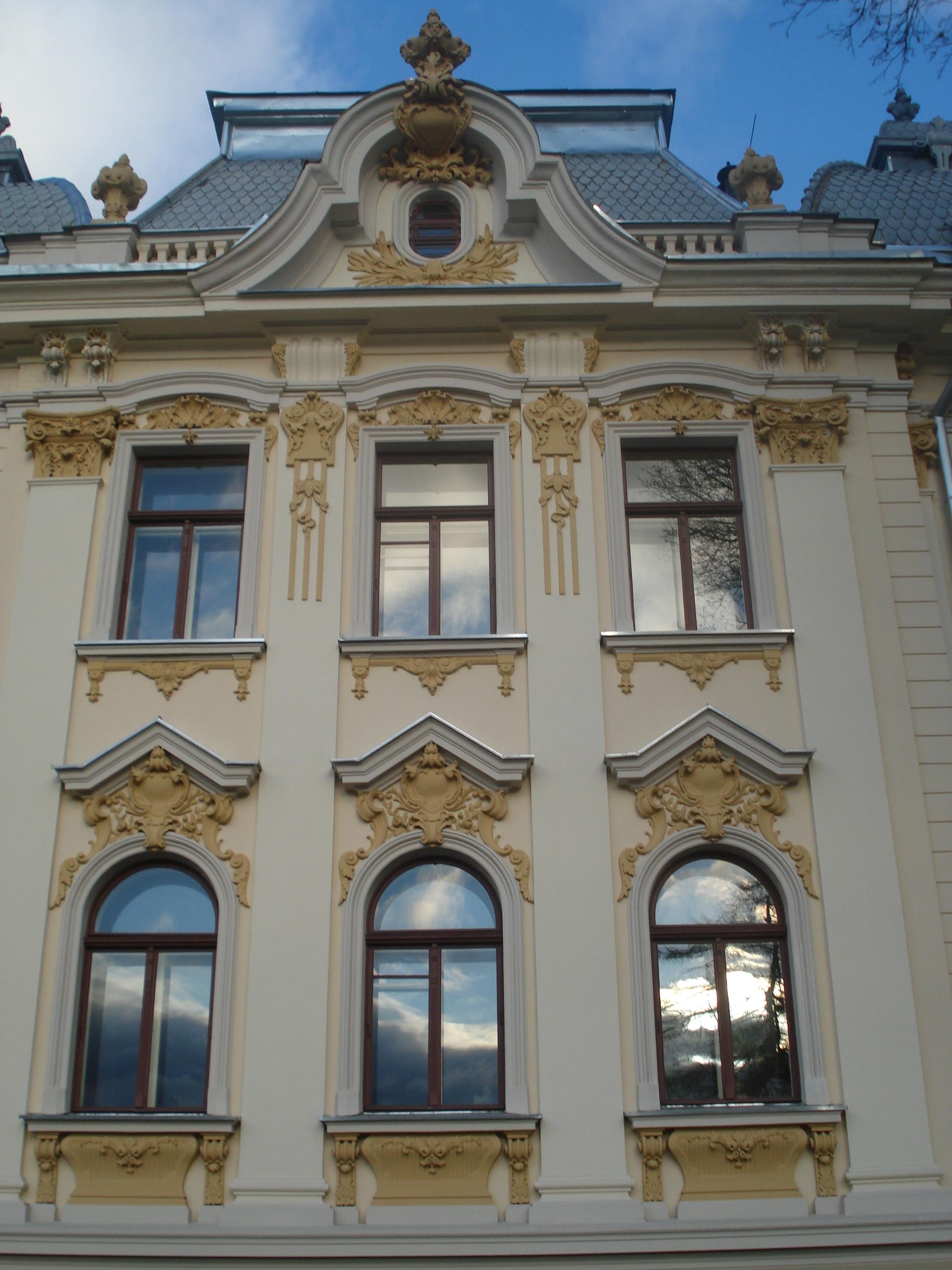 The Institute of Lithuanian Literature and Folklore in the palace of the Vileišis family (designed by August Klein, erected by Lithuanian engineer Petras Vileišisin in 1904-1906). Left facade. Vilnius, Antakalnio g. 6